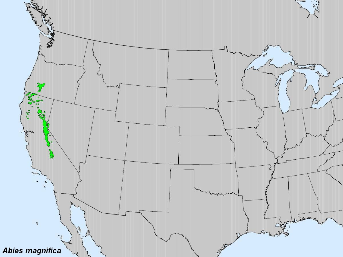 Range map of California red fir — Abies magnifica.